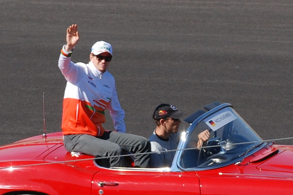 Nico Hülkenberg, United States Grand Prix, Austin 2012